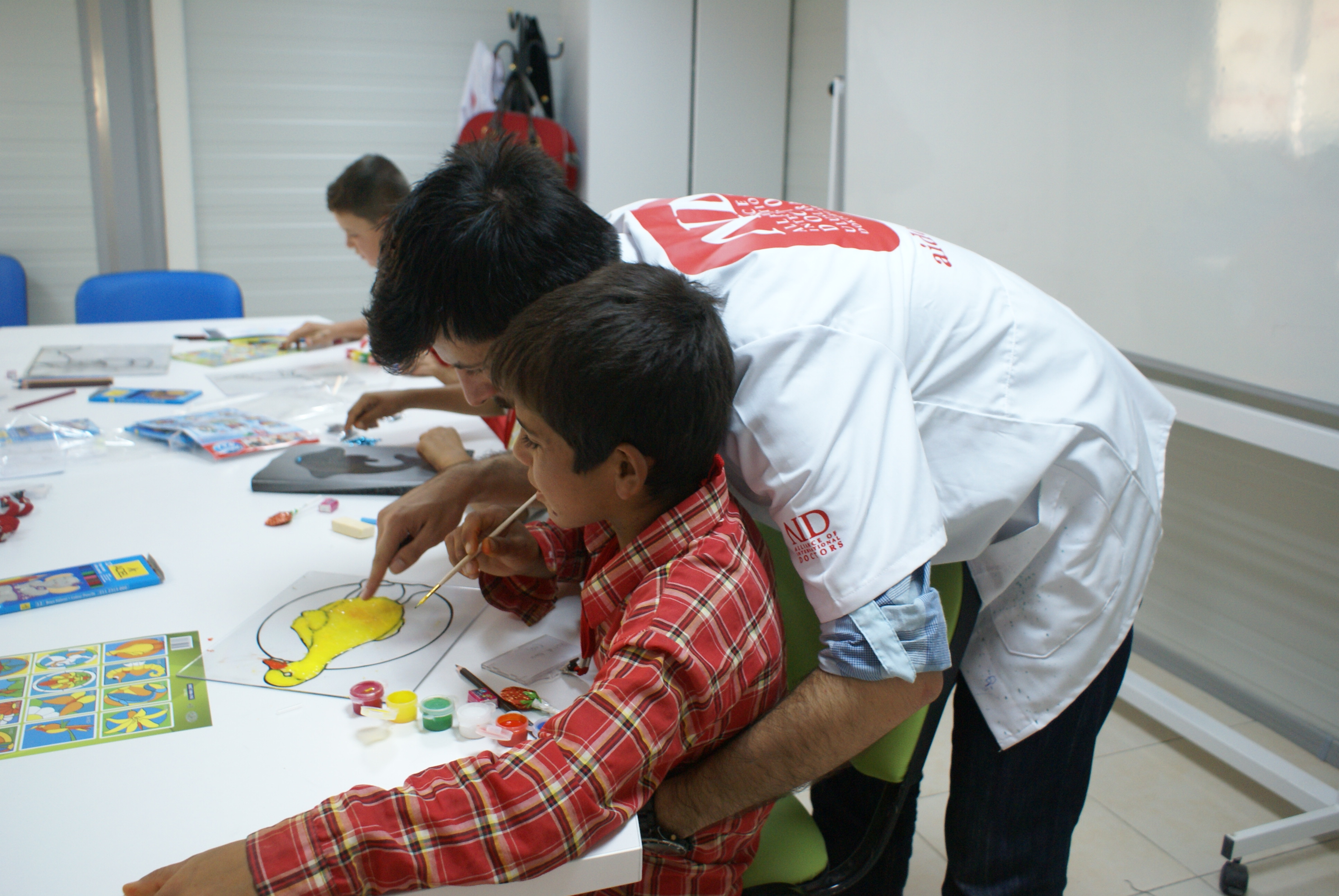 AID'in Suriye'nin Azez kasabasındaki kampta yaptığı psikososyal destek çalışmasından bir kare